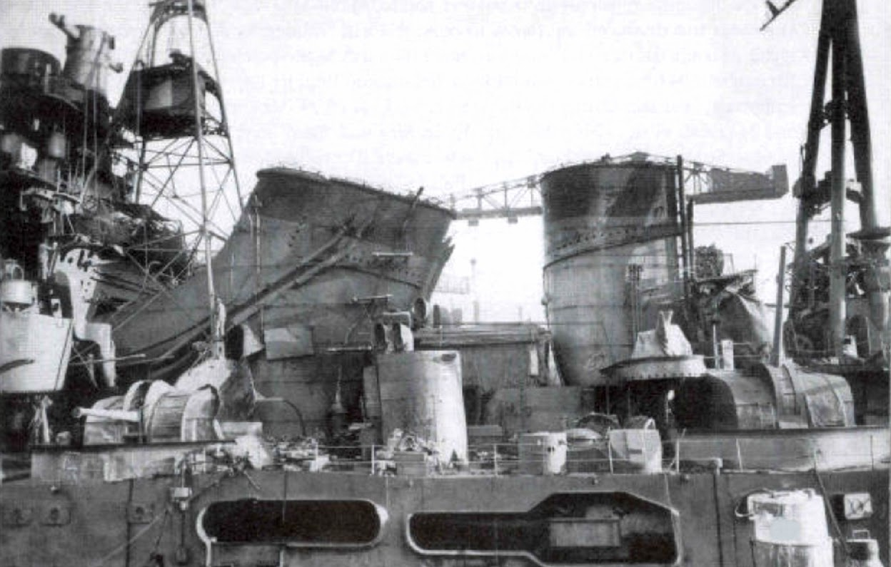 Central part japanese heavy cruiser Maya after damage at Guadalcanal 15 november 1942.